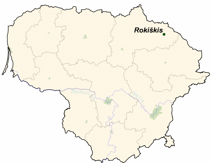 Rokiškis on the map of Lithuania